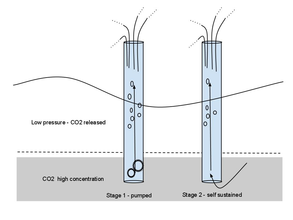 Degassing pump - self sustained pump continuous work after begins working.